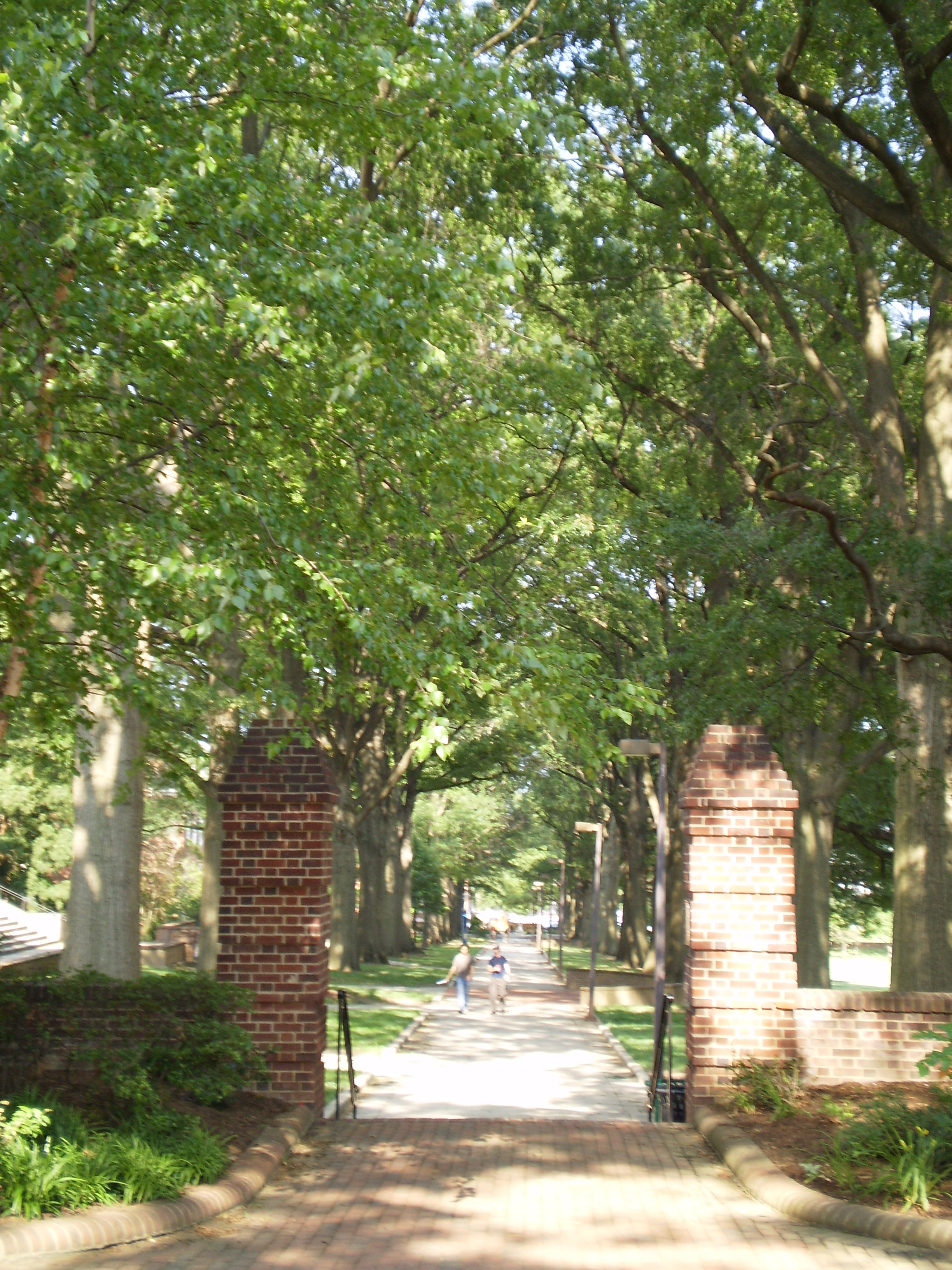 Walkway along McKeldin Mall on the campus of the University of Maryland, College Park.